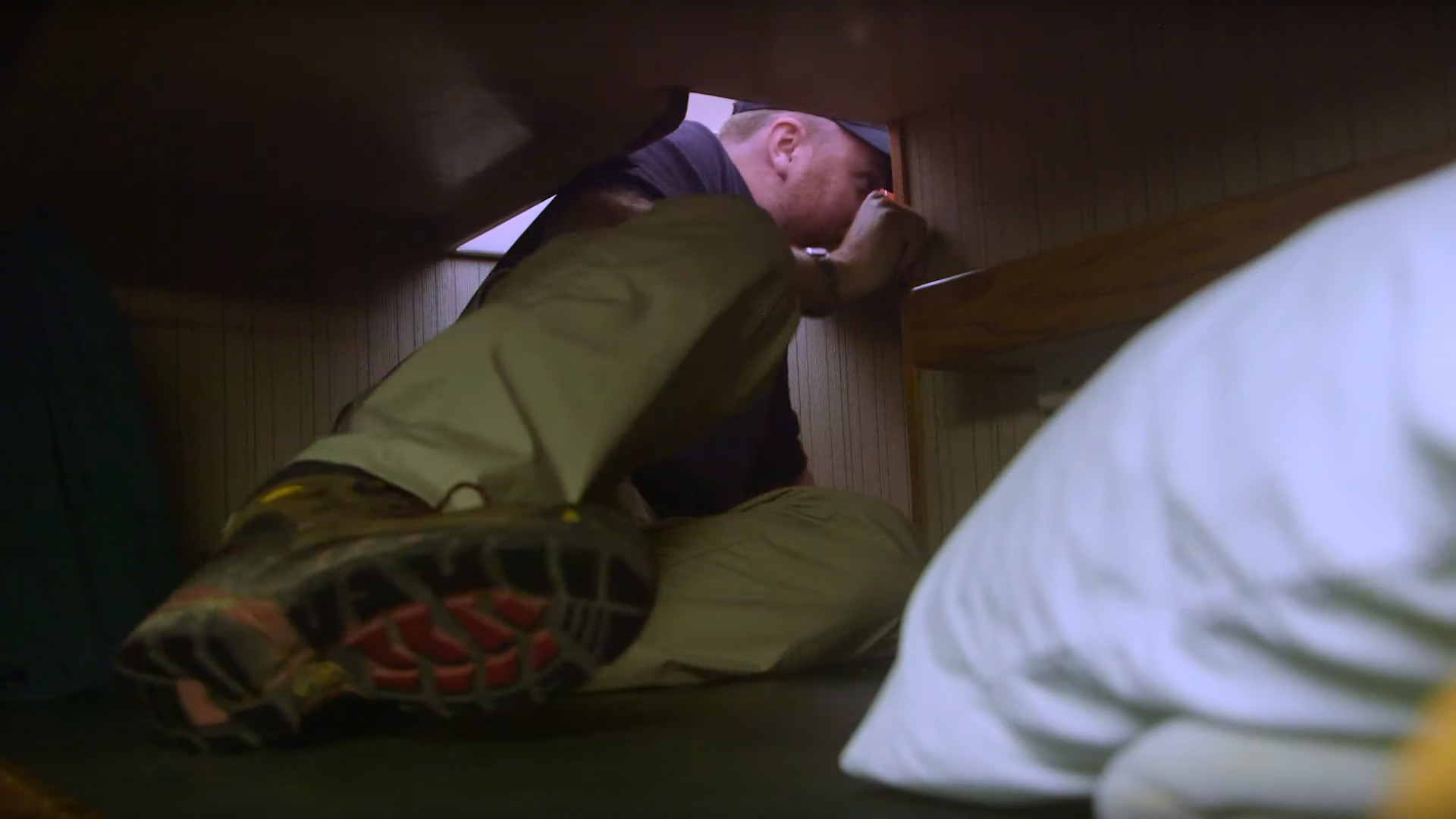 Still frame from the NTSB tour of Vision, a sister ship to Conception. This image shows an NTSB official manouvering through the aft escape hatch to the salon from above one of the bunks in the lower deck berths.